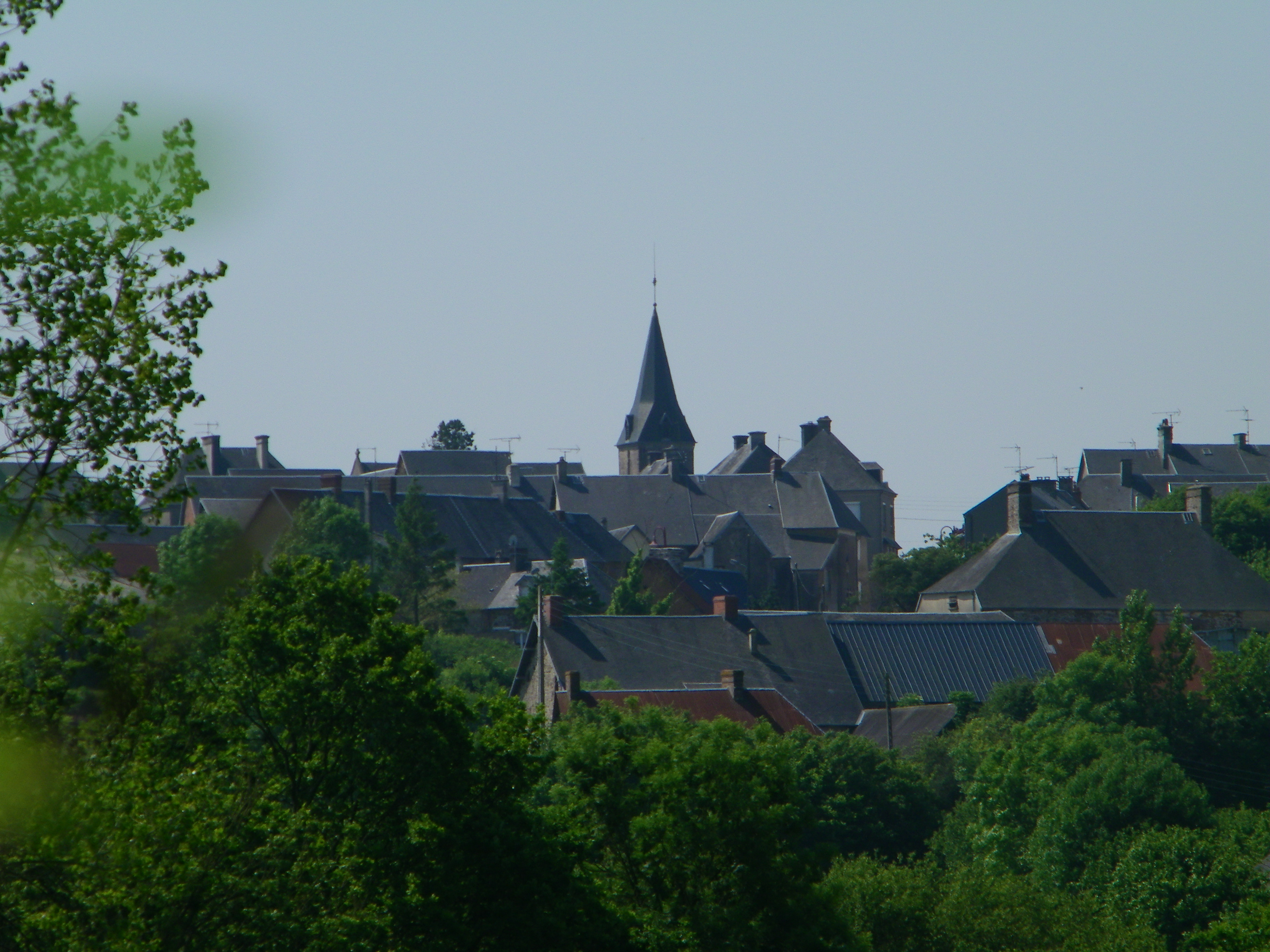 The village of Cerisy-la-Salle, Manche, France.